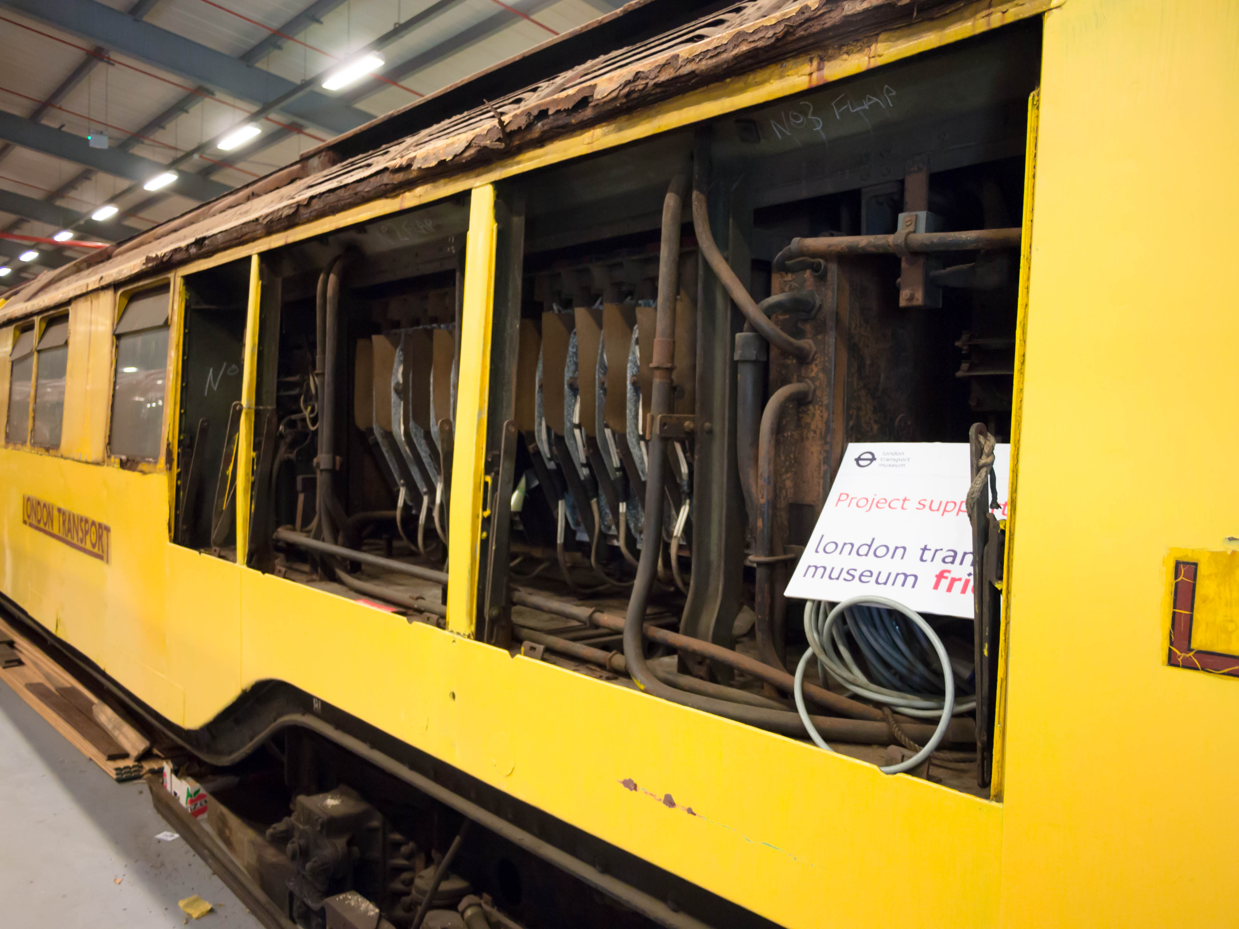 Acton Depot open day, March 2012